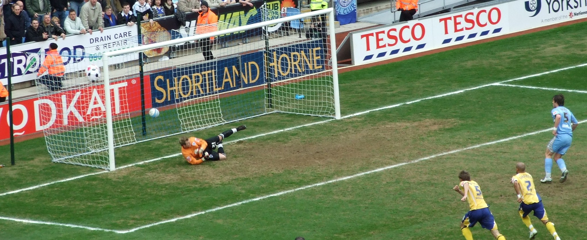 Ben Alnwick. Image cropped from original at Flickr.